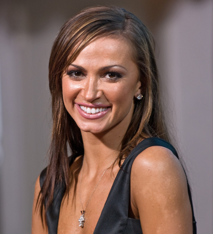 Karina Smirnoff at the Get Smart premiere, Fox Theater, Westwood, CA.